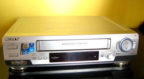 VHS Player